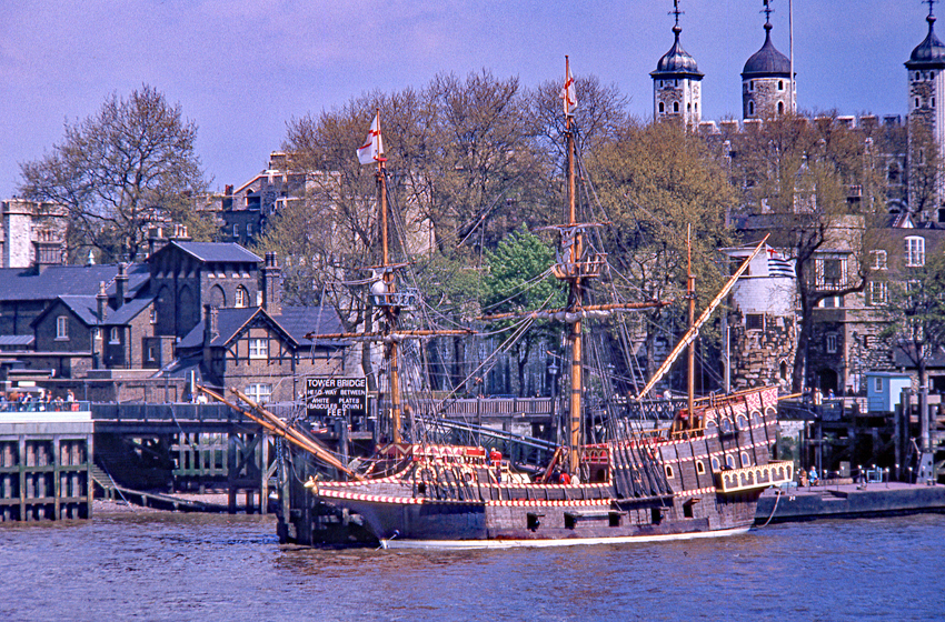 Golden Hind replica moored at Tower Pier in 1974, before her transatlantic voyage. This view wouldn't have changed much since Drake's time. Scanned from a Kodachrome 35mm slide.